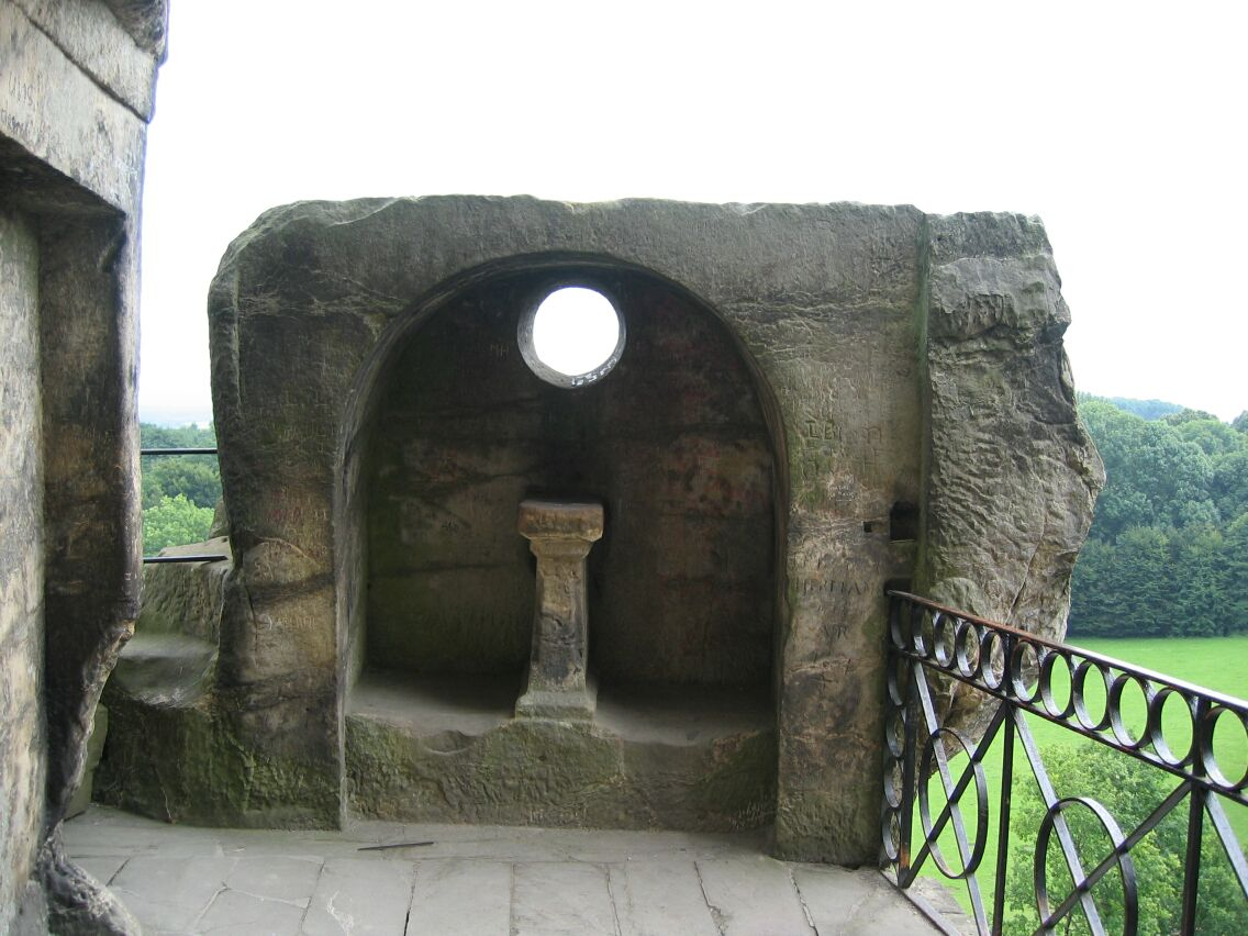 The Externsteine near Horn-Bad Meinberg, Germany